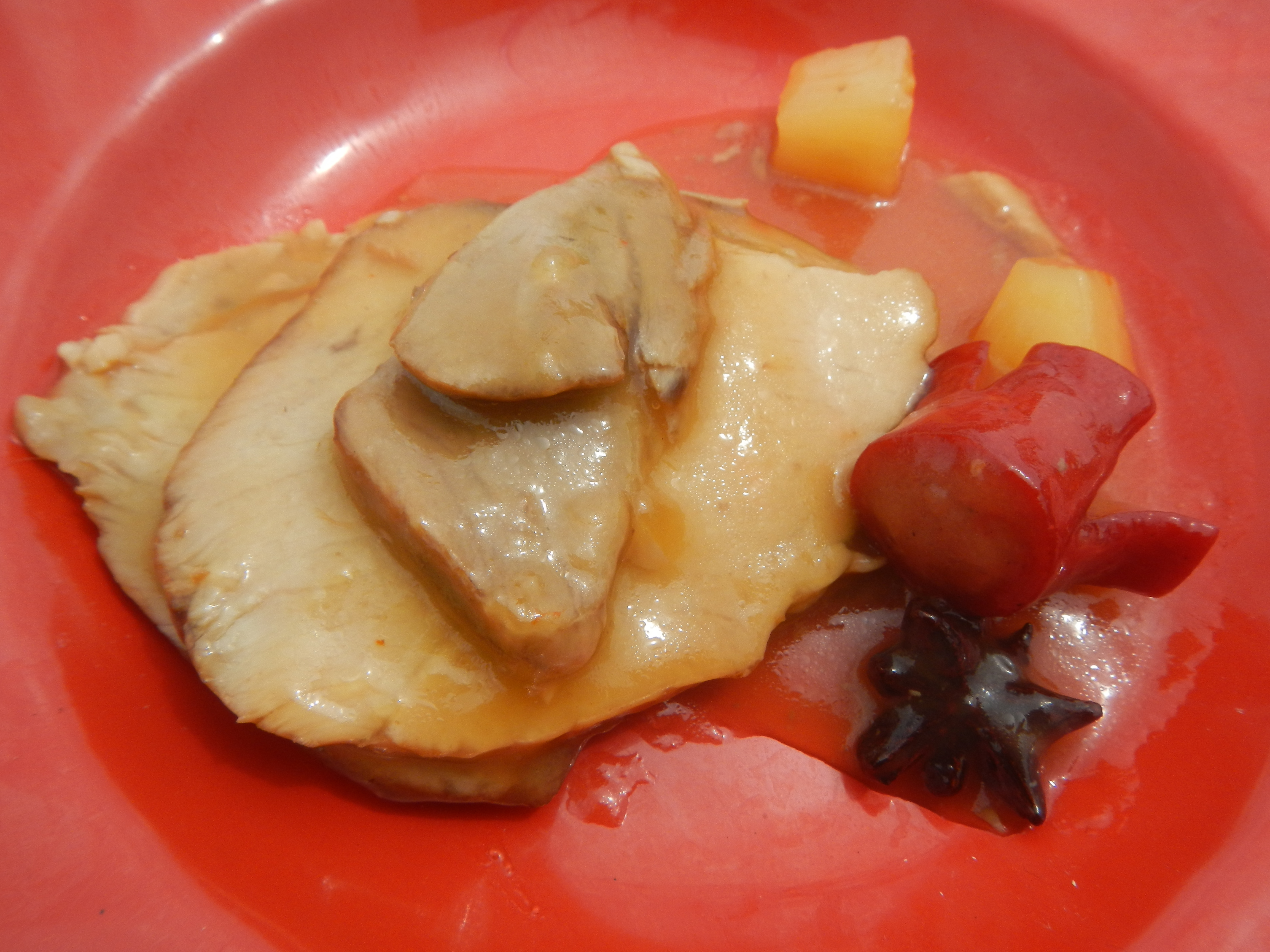 Cupcakes in the Philippines Brownies Hershey's Chocolate Spreads Chocolate spread List of products manufactured by The Hershey Company The Hershey Company photos taken in Barangay Poblacion 14°57'17"N 120°54'2"E Baliuag, Bulacan, Bulacan province (Note: Judge Florentino Floro, the owner, to repeat, Donor Florentino Floro of all these photos Judge Floro hereby donate gratuitously, freely and unconditionally all these photos to and for Wikimedia Commons, exclusively, for public use of the public domain, and again without any condition whatsoever).